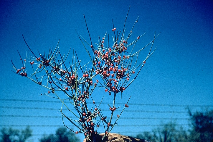 Clapweed. North of Del Rio, TX, USA.